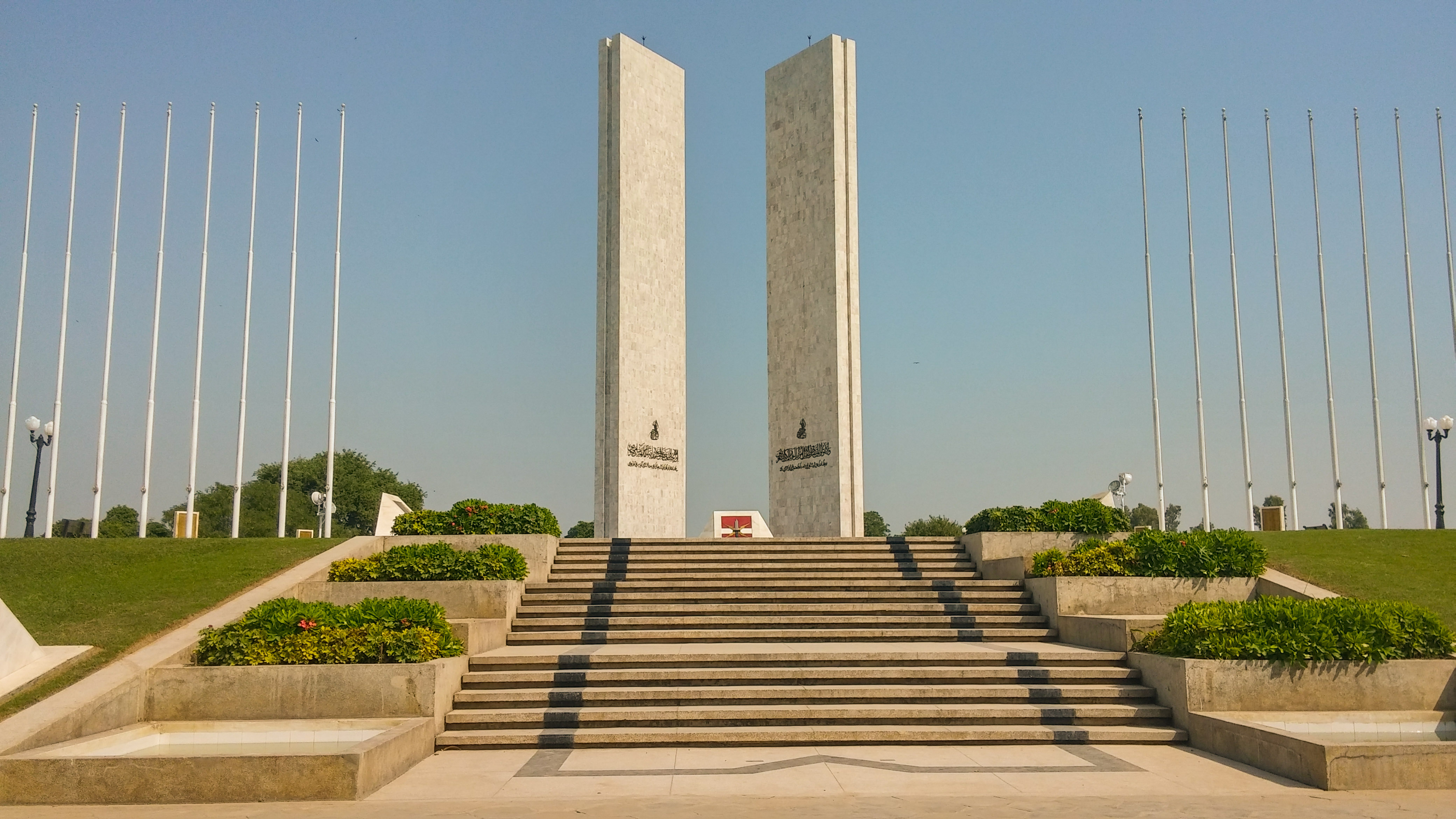 Nishan-E-Manzil This is a photo of a monument in Pakistan identified as the PB-U-18